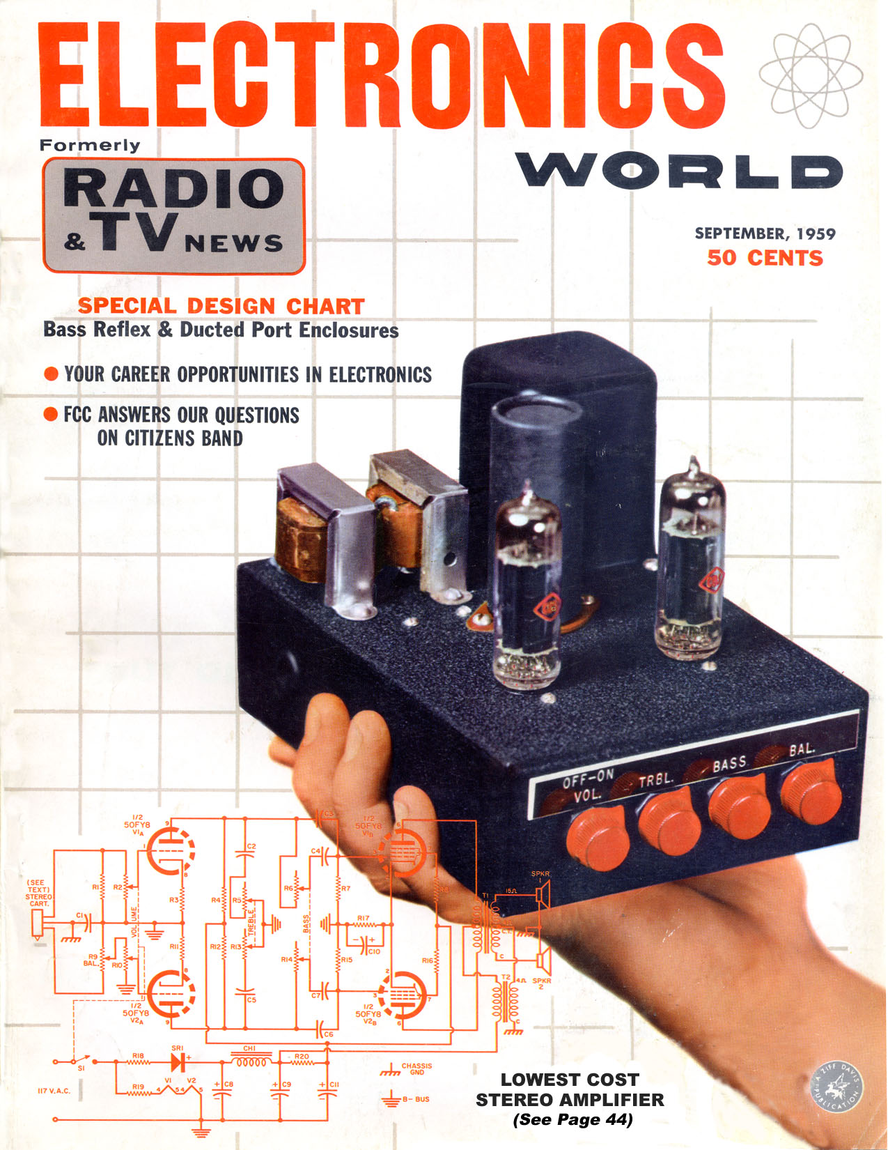 Electronics World, September 1959, Volume 62 Number 3. Ziff-Davis Publishing Company. Publisher: Oliver Read, Editor: Wm. A. Stocklin, Technical Editor: Milton S Snitzer. This 8.5 by 11.25 inch (21.6 by 28.6 cm) magazine had 160 pages and over 120 advertisers. The net paid circulation (Jan-June 1959) was 244,660. Many Ziff-Davis magazines would have two 6 issue volumes a year. Volume 61 was January to June 1959, volume 62 was July to December 1959. Cover Story: Compact Two-Tube Stereo Amplifier. J. Augeri and D. Crhistansen, CBS Electronics. Radio News was founded by Hugo Gernsback in 1919 and acquired by Ziff-Davis in 1938. The name was changed to Radio & Television News in August 1948, to Radio & TV News in May 1957 and to Electronics World in May 1959. It was merged into Popular Electronics in January 1972.